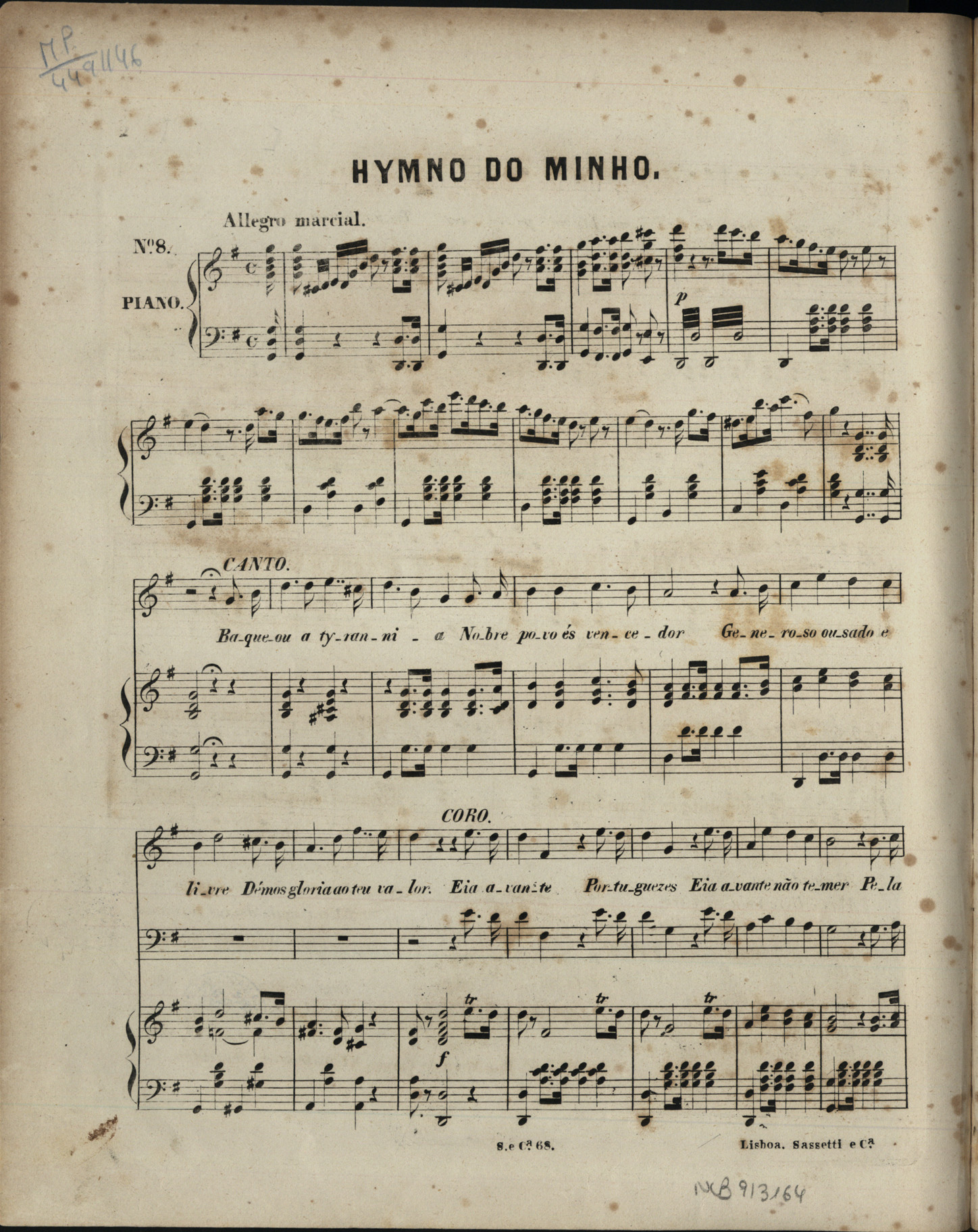 "Hino da Maria da Fonte", or "Hino do Minho" sheet music (first page), 1850s.